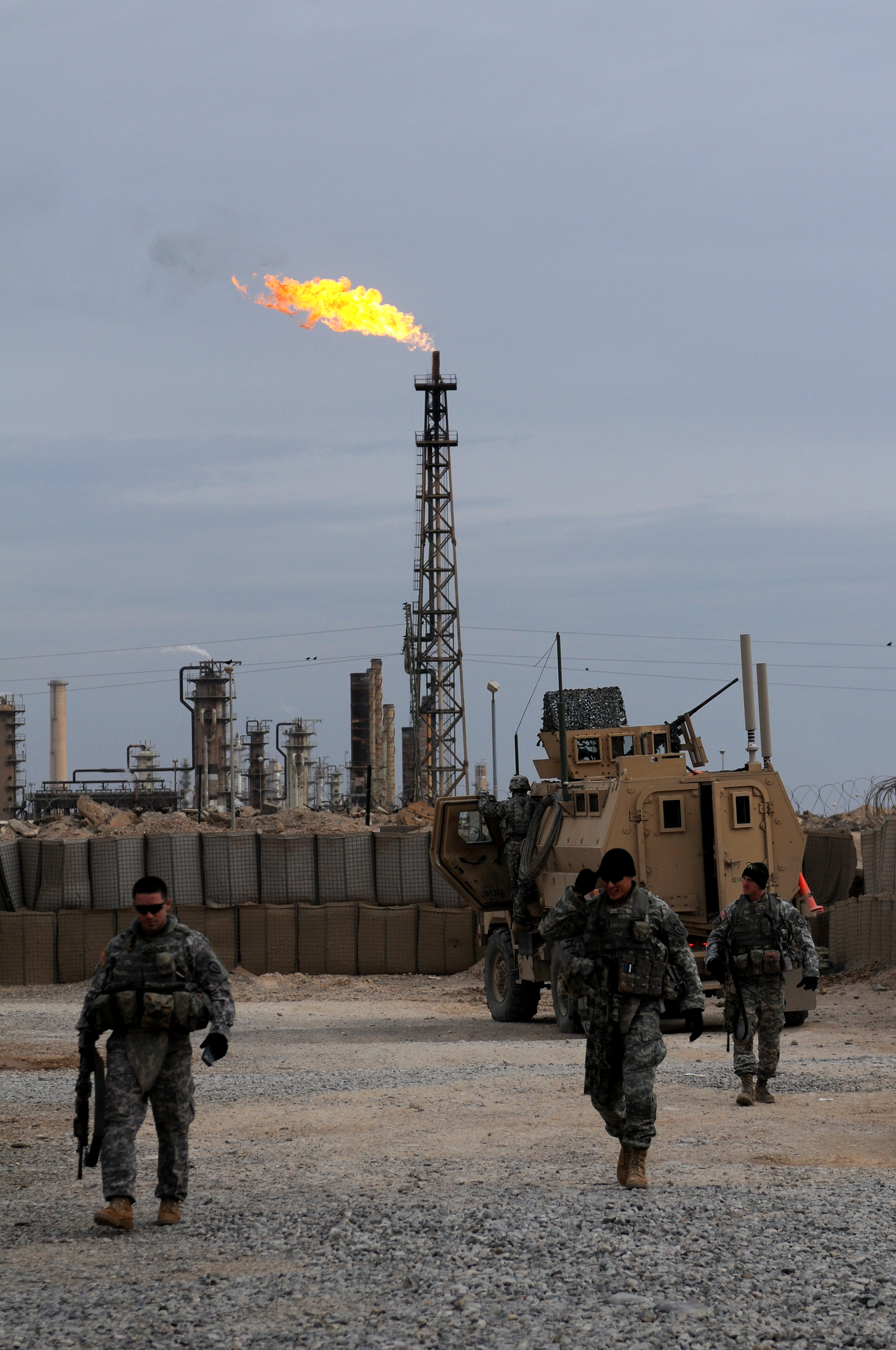 U.S. Soldiers from Delta Company, 2nd Infantry Battalion, 27th Infantry Regiment, 3rd Brigade Combat Team, 25th Infantry Division, drop off three Soldiers after a mission in Bayji, Iraq, and pick up more Soldiers to head back out on another mission on Dec. 21. ID: 138790 Date Taken: December 21st, 2008 Location: FOB Summerall, IQ Photographer: Sgt. Kani Ronningen Joint Combat Camera Center Iraq For more photos from the gallery